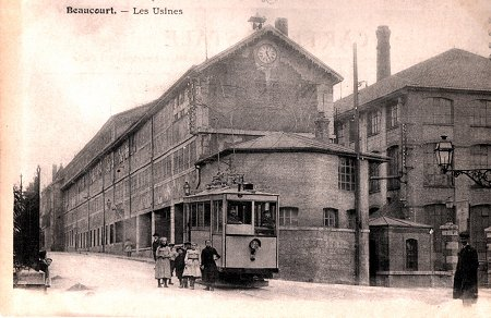 Beaucourt XIXth century